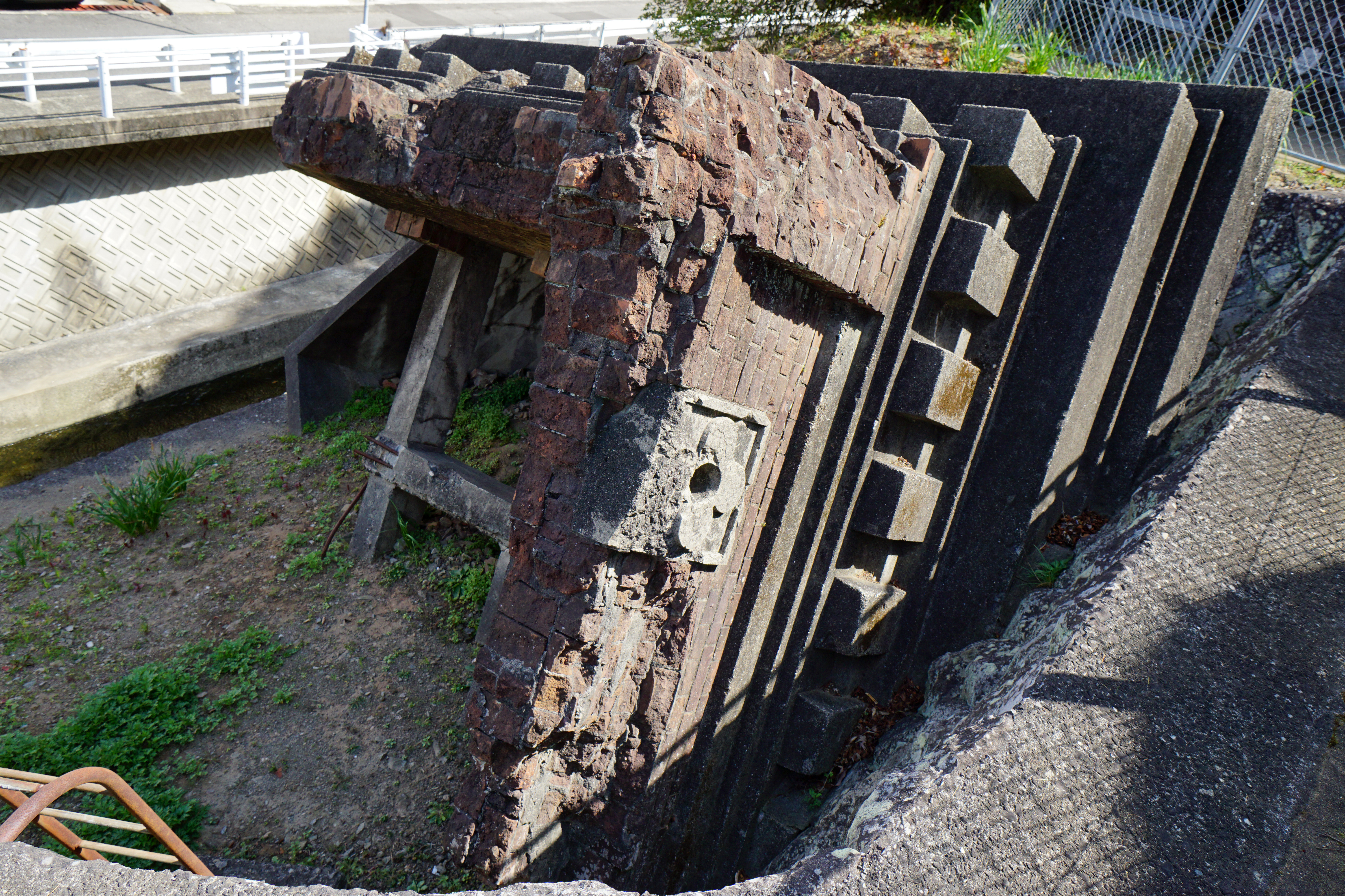 Urakami Cathedral in Nagasaki, Nagasaki prefecture, Japan.